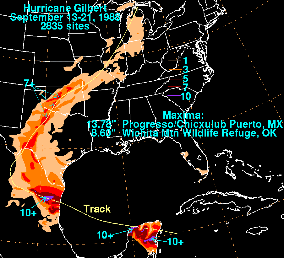 Rainfall produced by Hurricane Gilbert during September 1988.